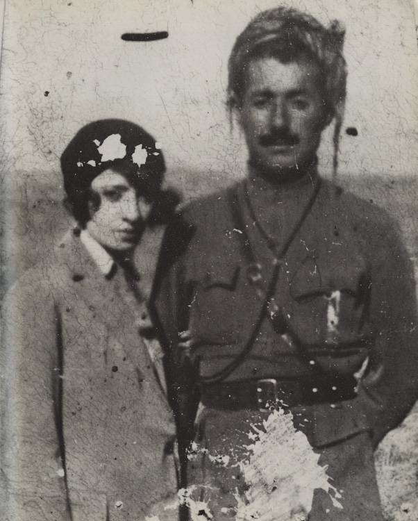 Ihsan Nuri Pasha, who was the military leader of the Ararat rebellion, and his wife Yashar Hanim.